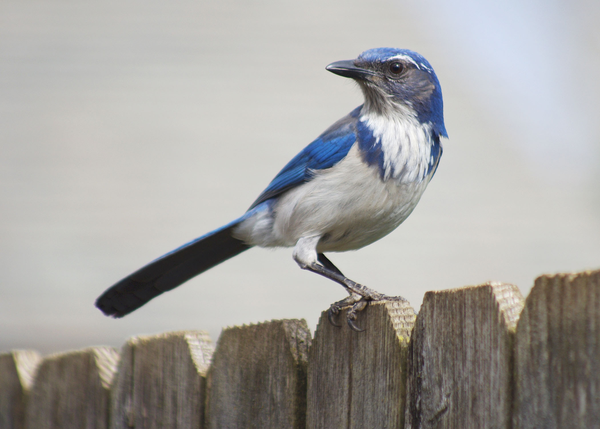 Photo by Martyne Reesman, Oregon Department of Fish and Wildlife- Western Scrub-Jay (Aphelocoma californica) The name of the Western Scrub-Jay derives from its preference for "scrub" habitat, consisting chiefly of shrubs or brush intermixed with sparse trees. It calls attention to itself with its raspy metallic shriek. Its harsh voice and fussy, boisterous behavior might lead some to consider the scrub-jay a nuisance, but this bird also possess abundant character and is considered to be uncommonly smart and adaptable. The Western Scrub-Jay is a common permanent resident in western interior valleys and foothills between the Coast Range and the Cascades, especially in the Willamette, Umpqua, and Rogue valleys.